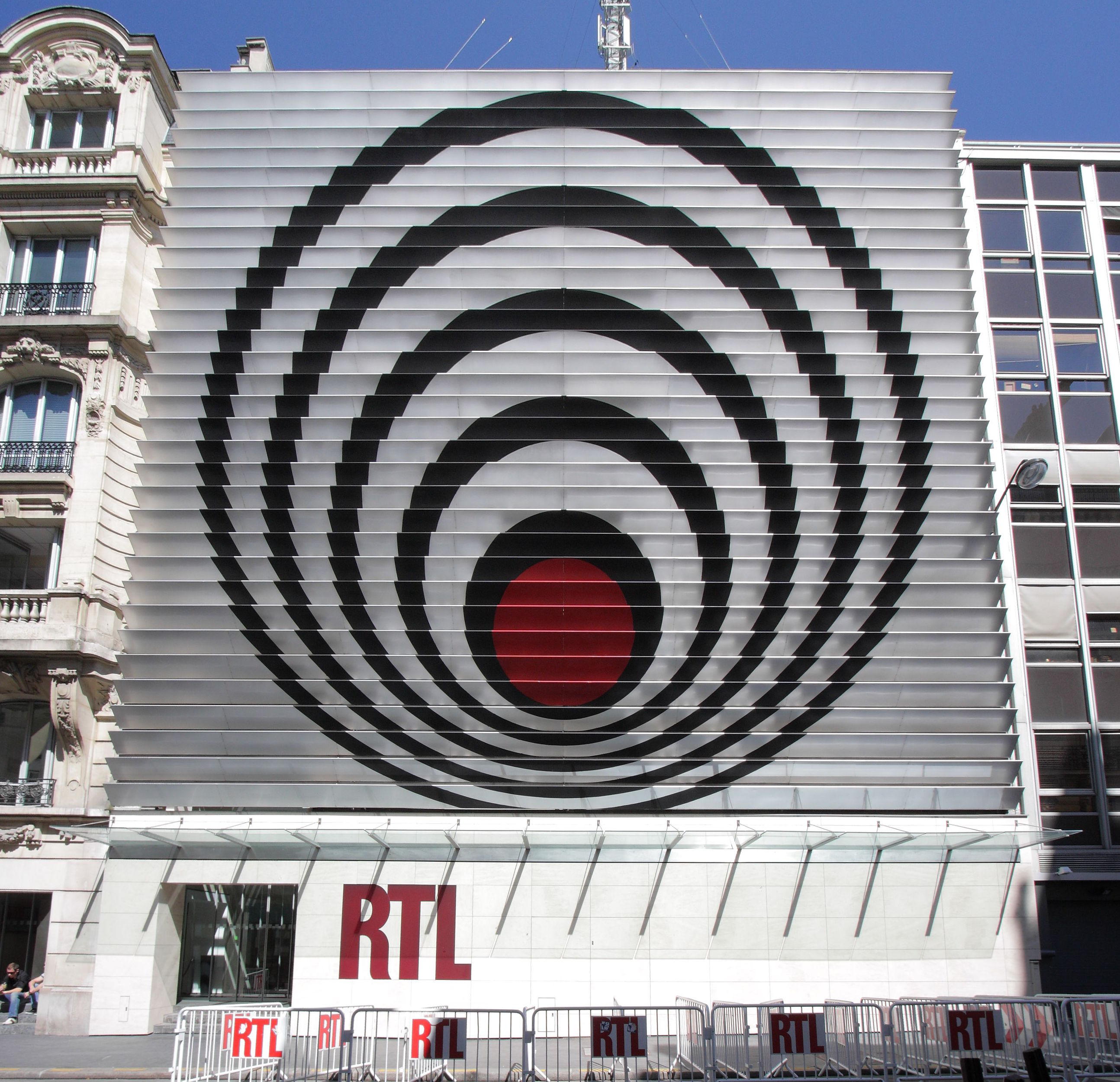 Studio of the french radio RTL, 22, Bayard street in Paris